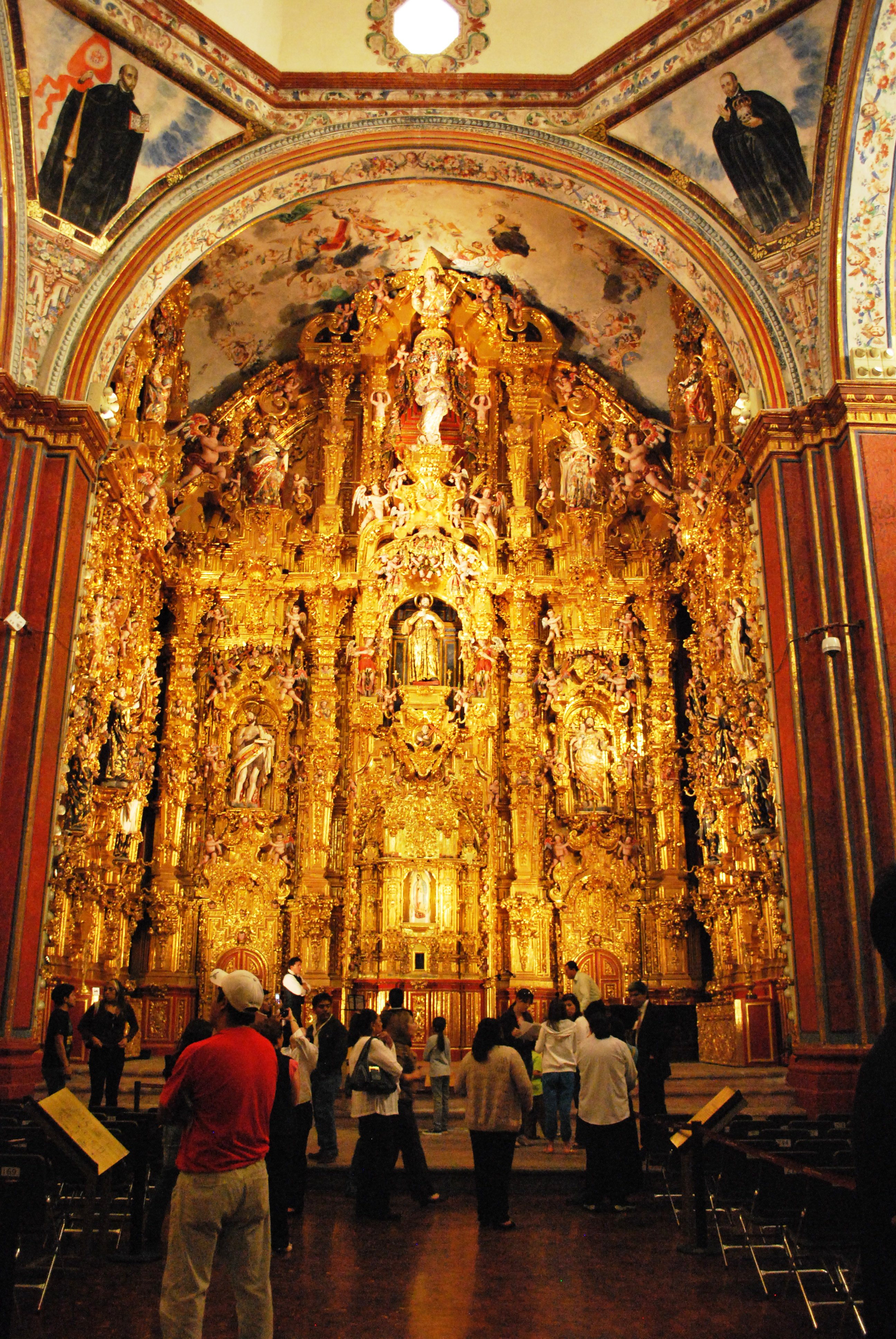 Main altar area of the Church of San Francisco Javier in Tepotzotlan, Mexico State